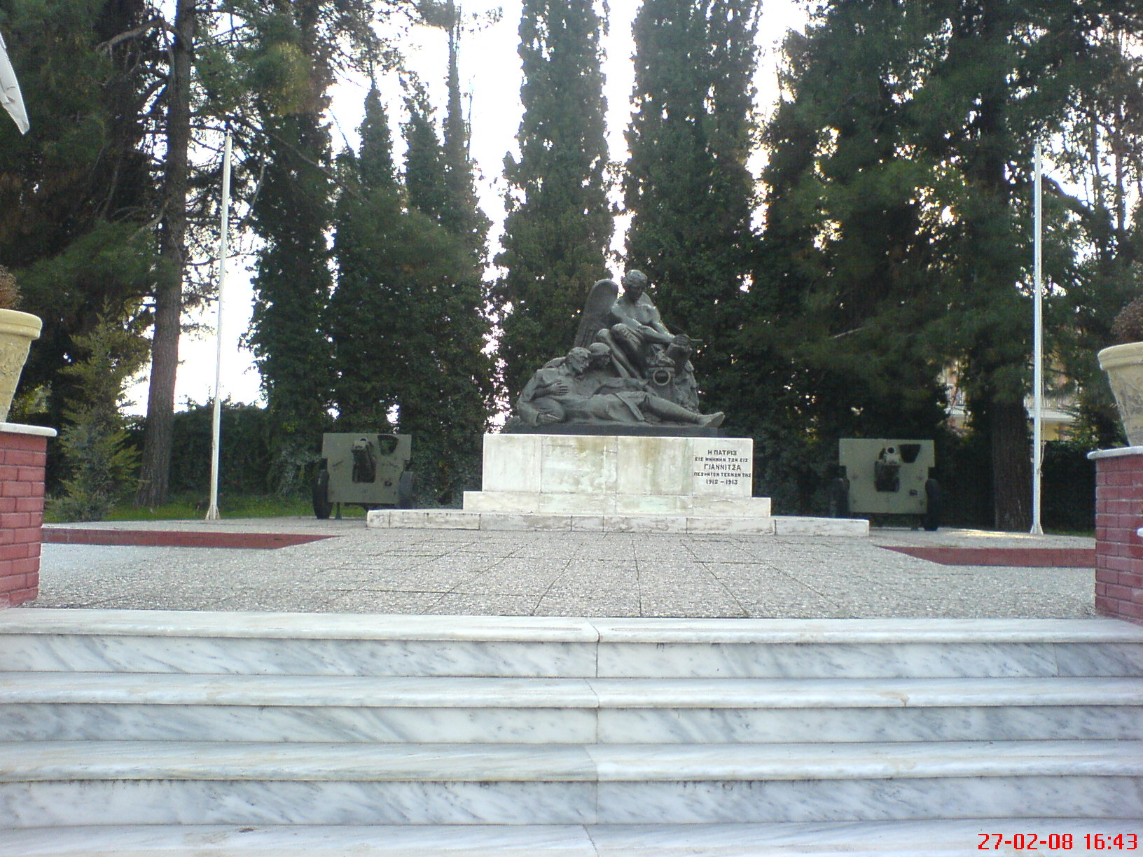 Monument of soldiers fallen in 1912-1912, Giannitsa, Greece.